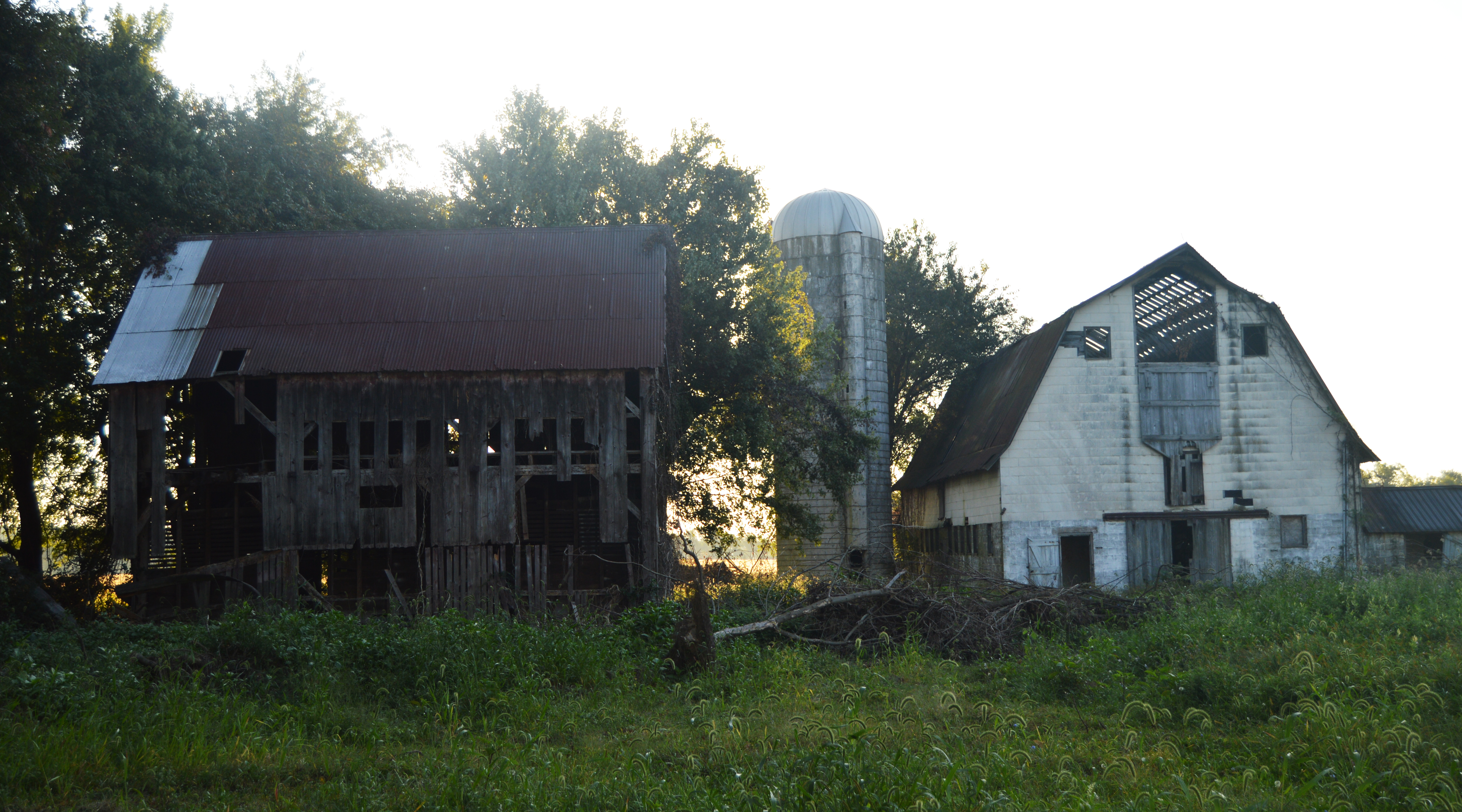 Granary and Barn, east of the main house